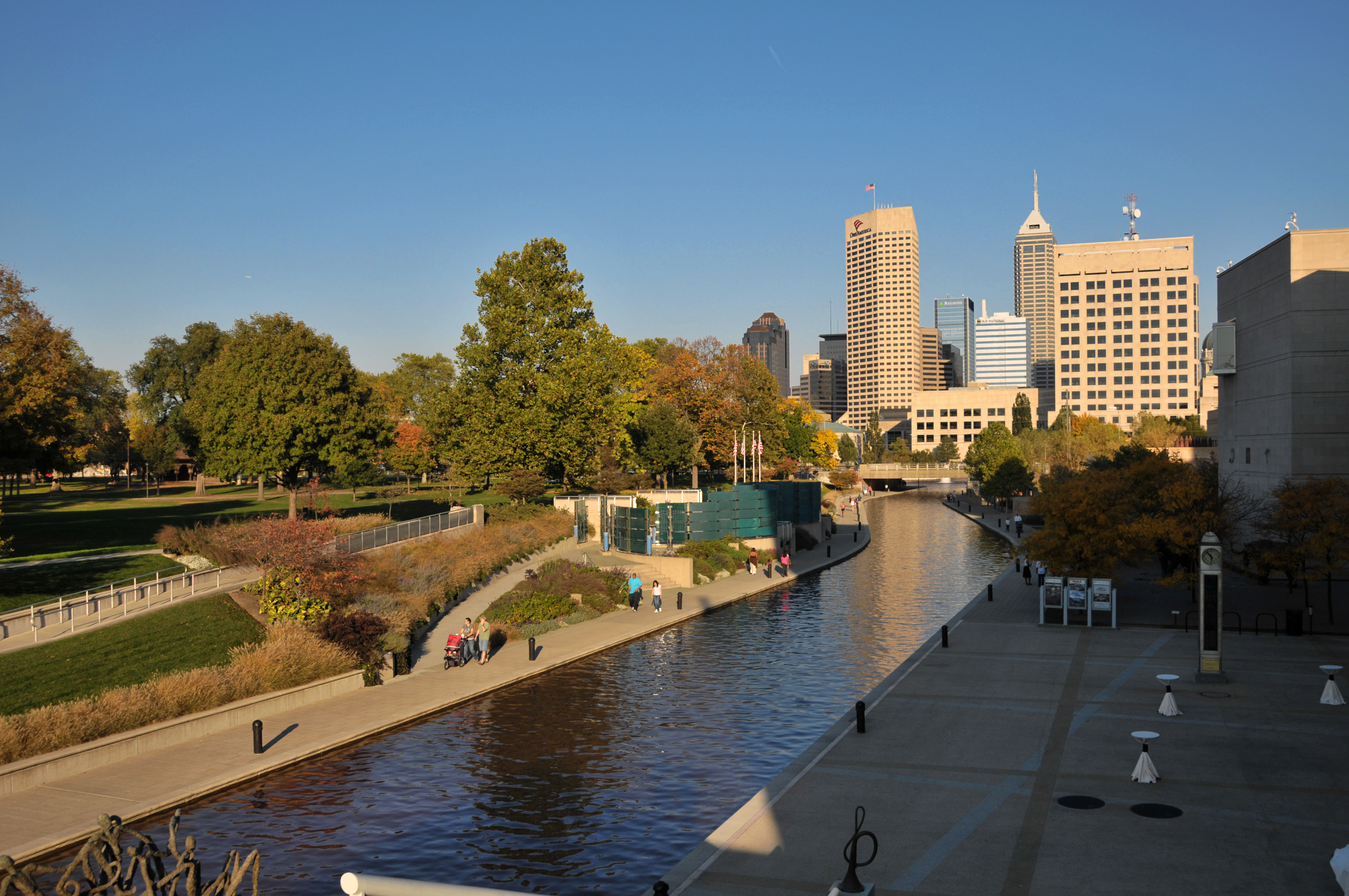 A Stroll on the Indy Canal from the steps of the State Museum